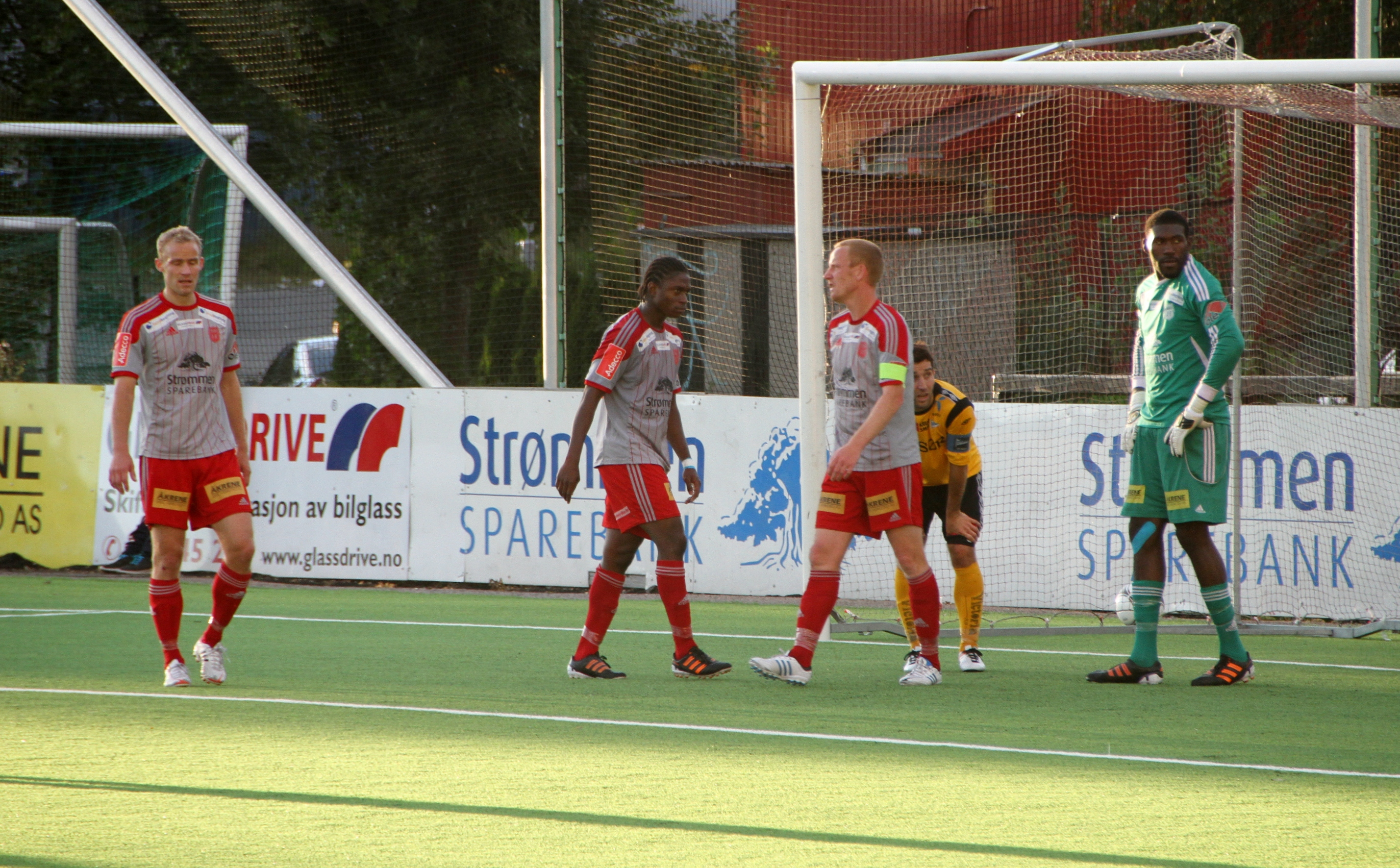 Strømmen IF players. Strømmen stadium, Akershus, Norway.